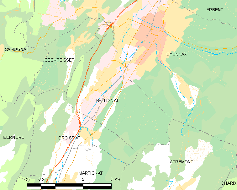 Map of French commune: Bellignat Map commune FR insee code 01031.png